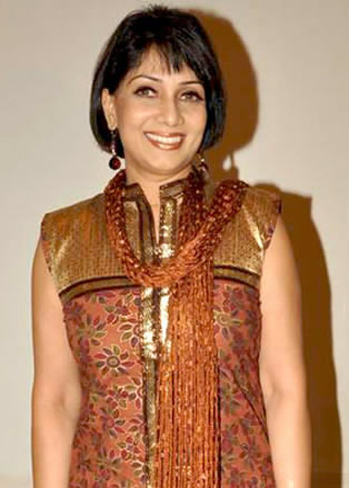 Asawari Joshi at promo launch of 'Chala Mussaddi - Office Office'